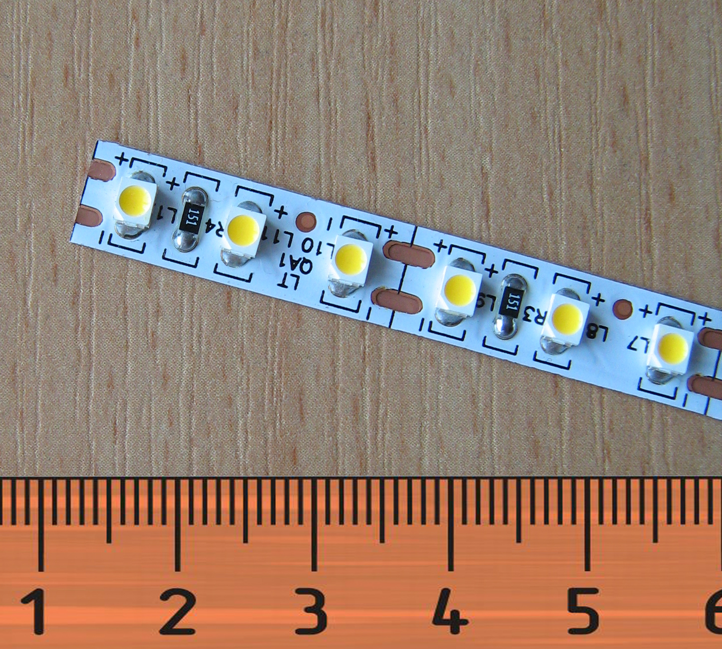 LED strip type SMD 3528, 120 LEDs at 1 m.